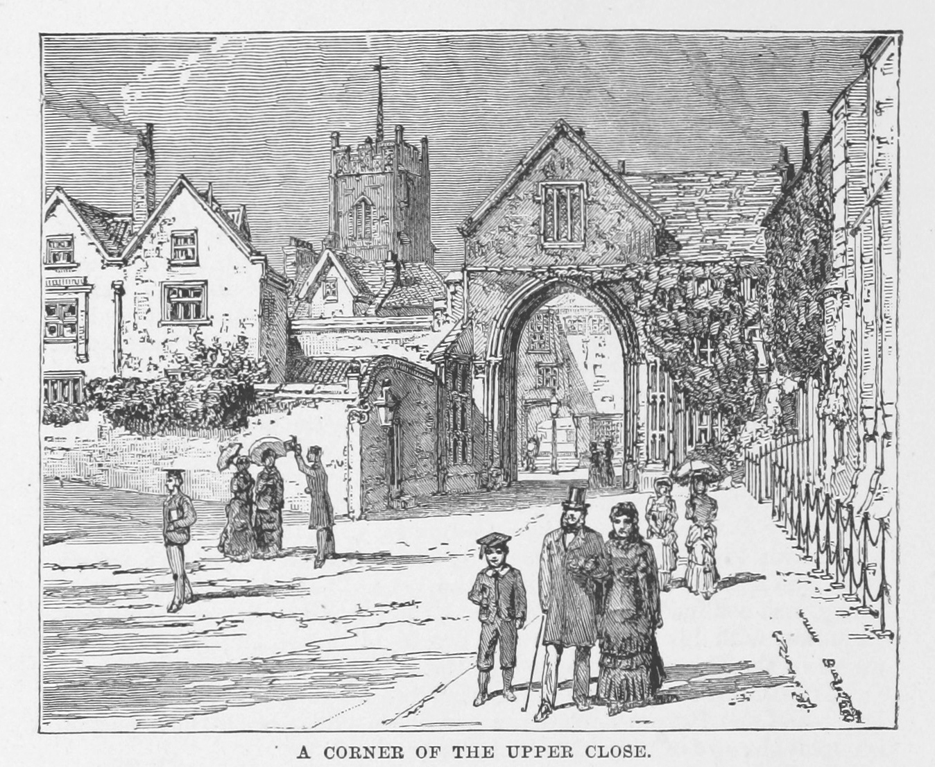 View from the Upper Close of Norwich Cathedral